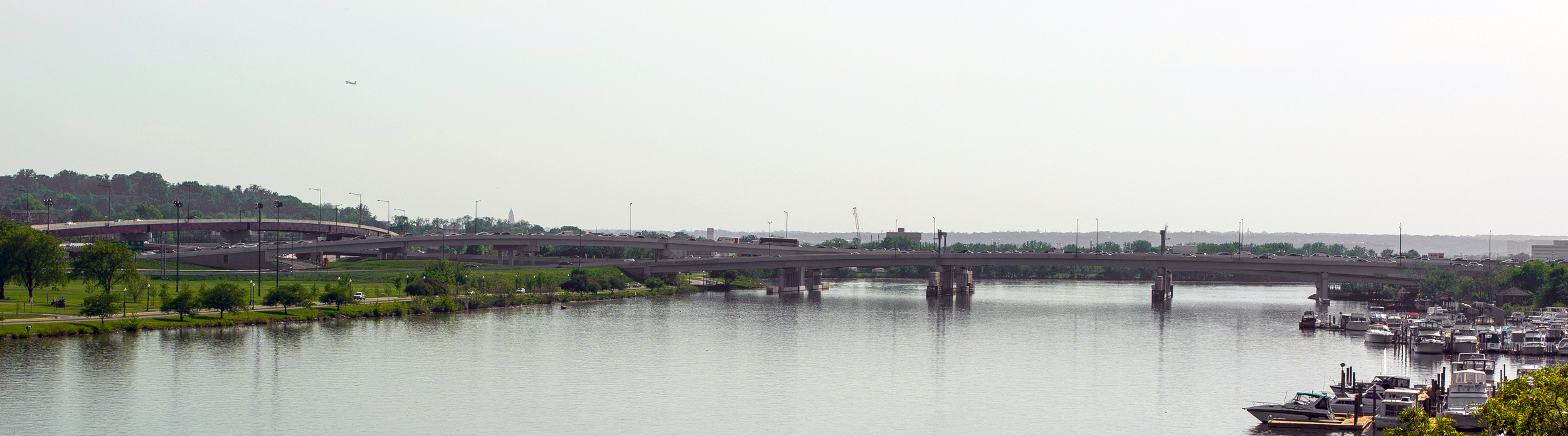 Looking southwest at the completed 11th Street Bridges over the Anacostia River in Washington, D.C., in the United States. Visible on the left side of the photograph are the extensive series of flyovers and underpasses that link the bridge to north- and southbound Suitland Parkway and north- and southbound D.C. Route 295 (Anacostia Freeway).